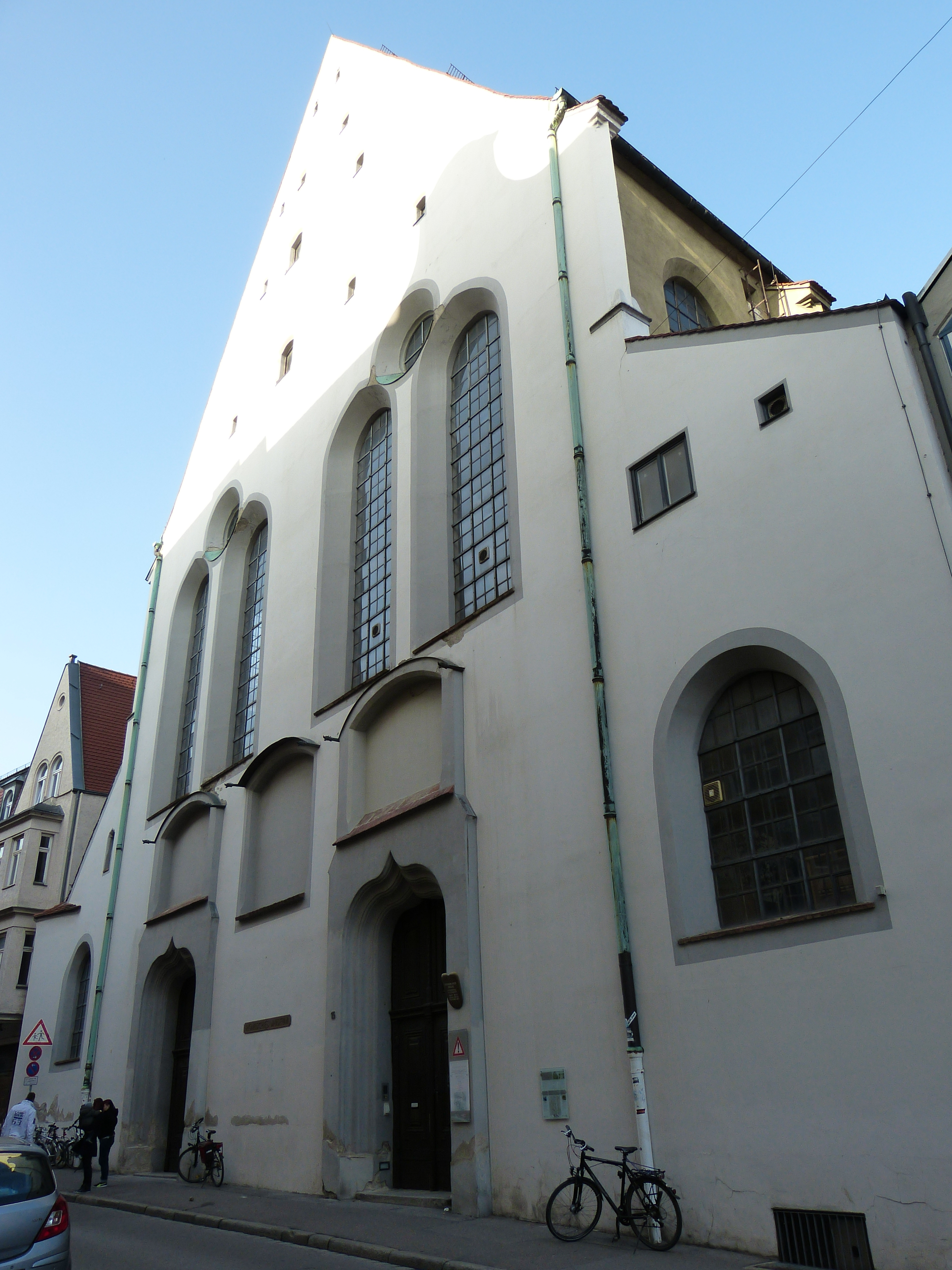 Augsburg, Dominikanergasse 15. This is a photograph of an architectural monument.